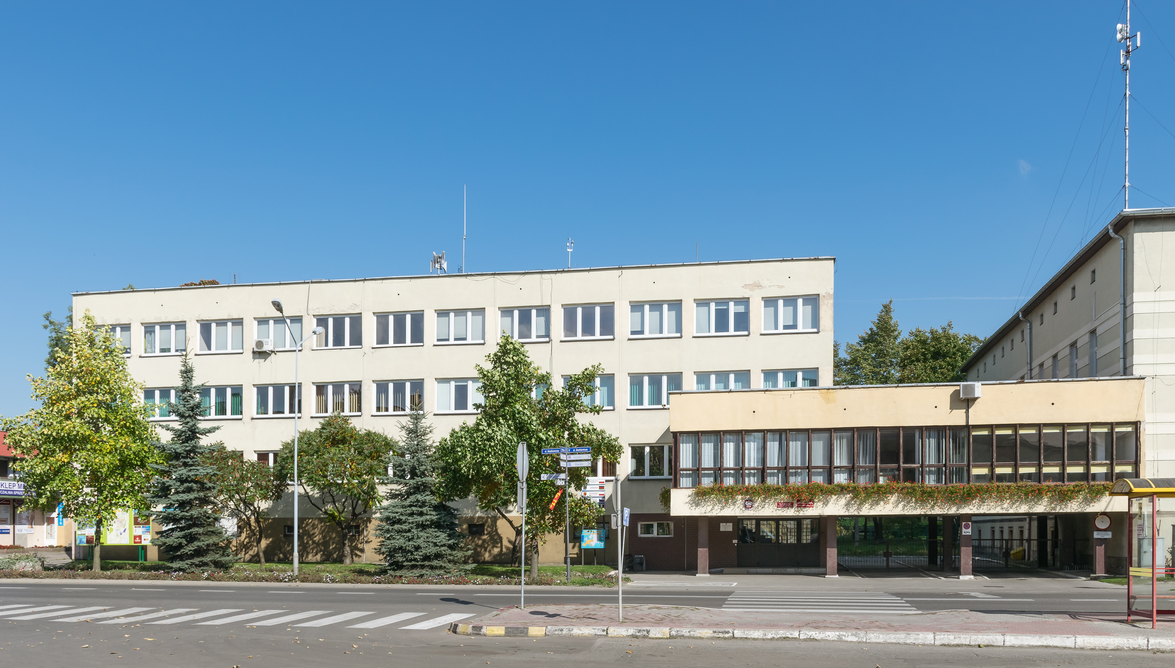 Gmina office in Bystrzyca Kłodzka